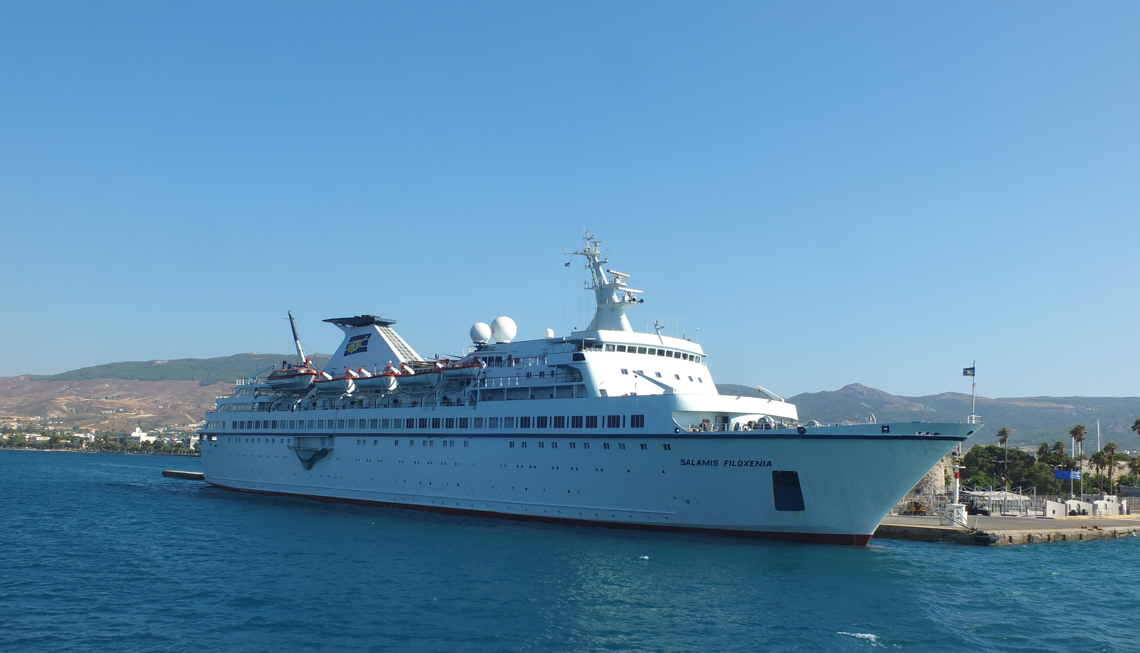 The cruise ship MS Salamis Filoxenia in Kos harbour.